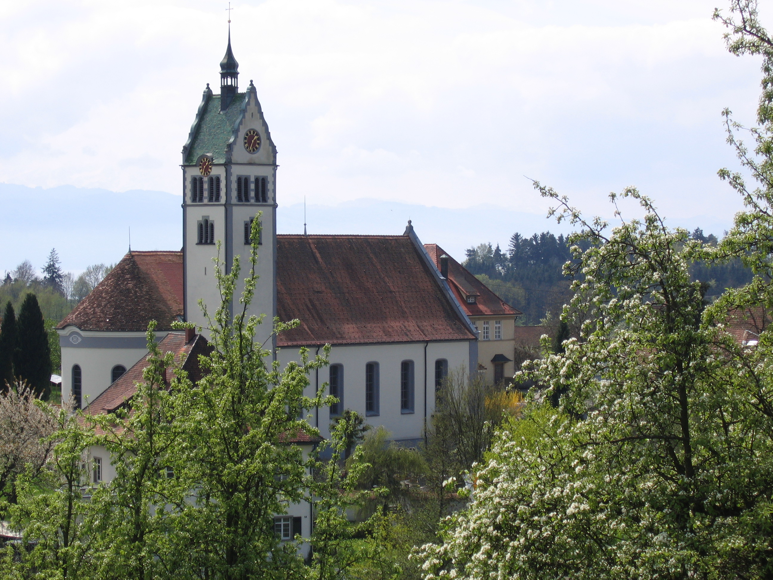 Germany - Baden-Württemberg - Bodesneekreis - Kressbronn - Gattnau: St.-Gallus-Church (1792)